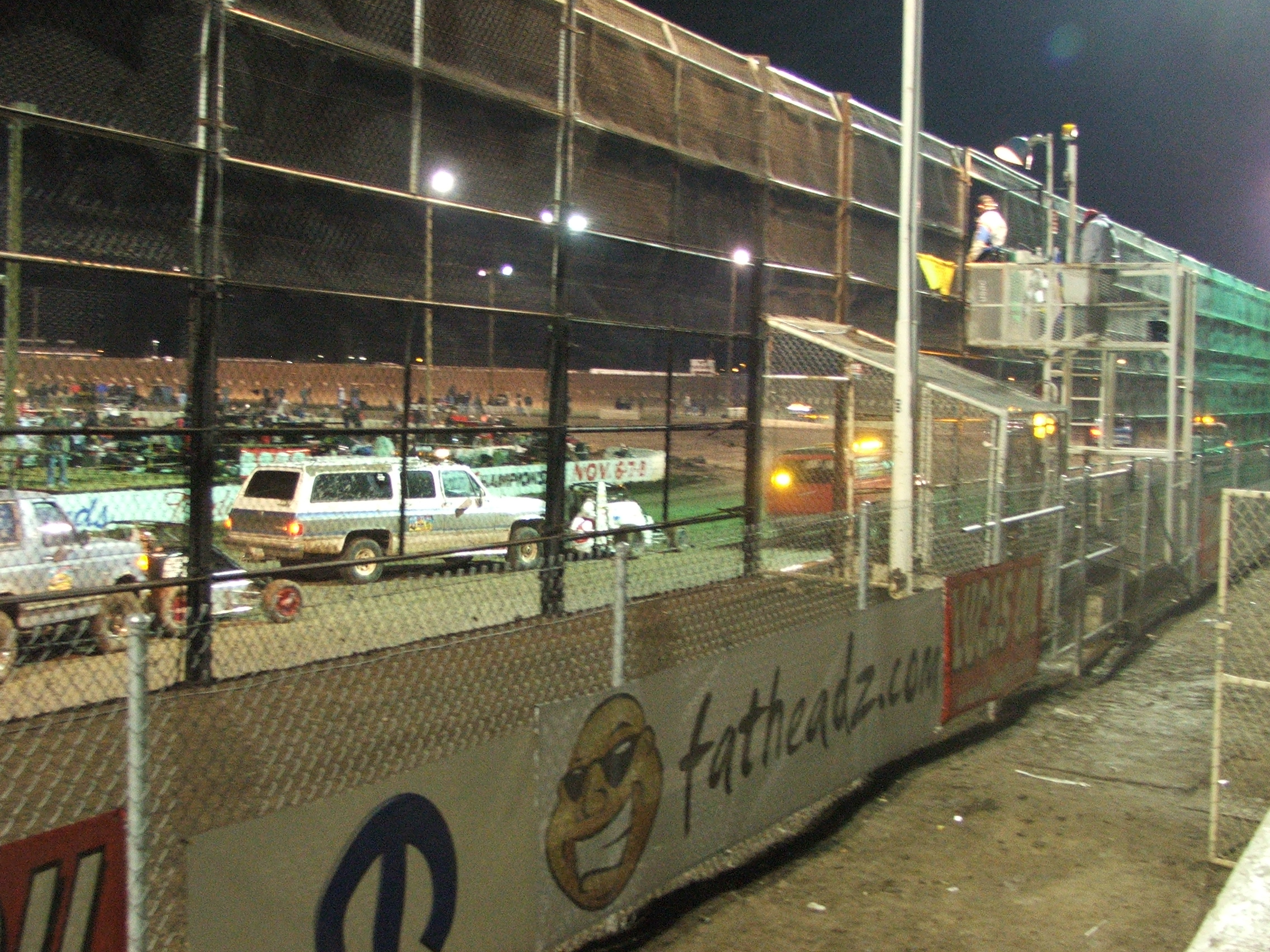 The frontstretch for Manzanita Speedway on February 16, 2008.